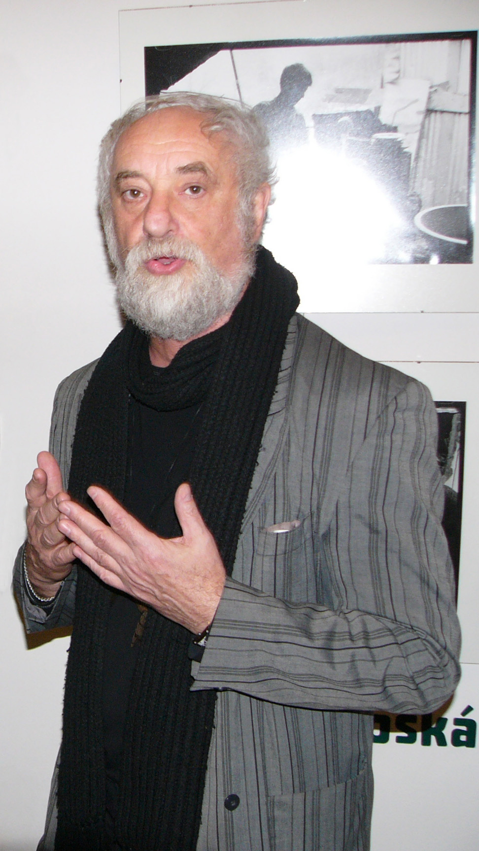 Czech photographer Jindřich Štreit.